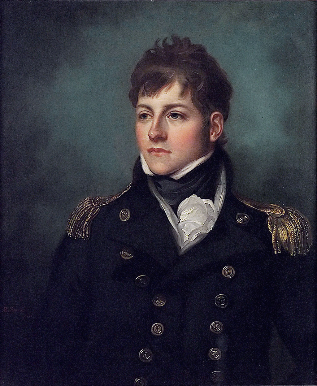 Captain George Miller Bligh, a half-length facing portrait to the left in captain's (over three years) undress uniform, 1795-1812, with gold epaulettes. Bligh became a captain in 1808.